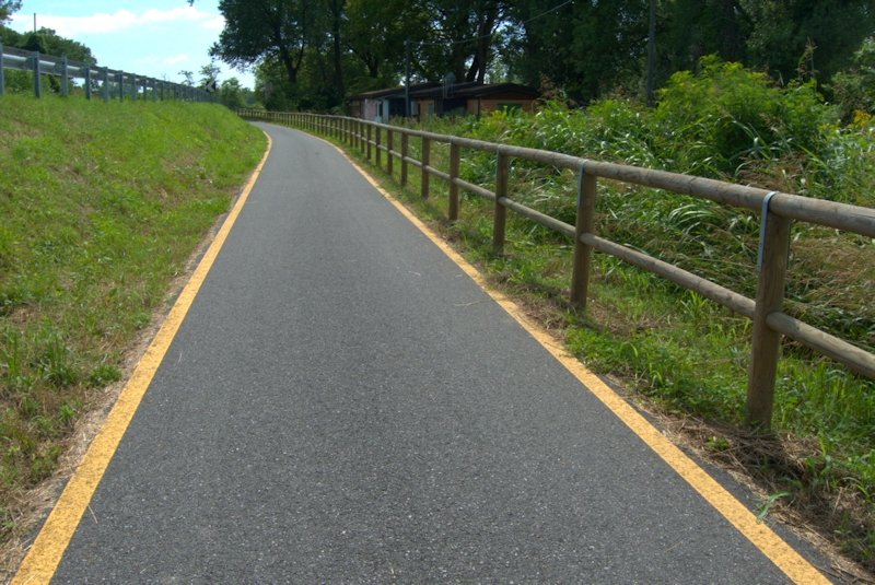 Cycleway by Adda river